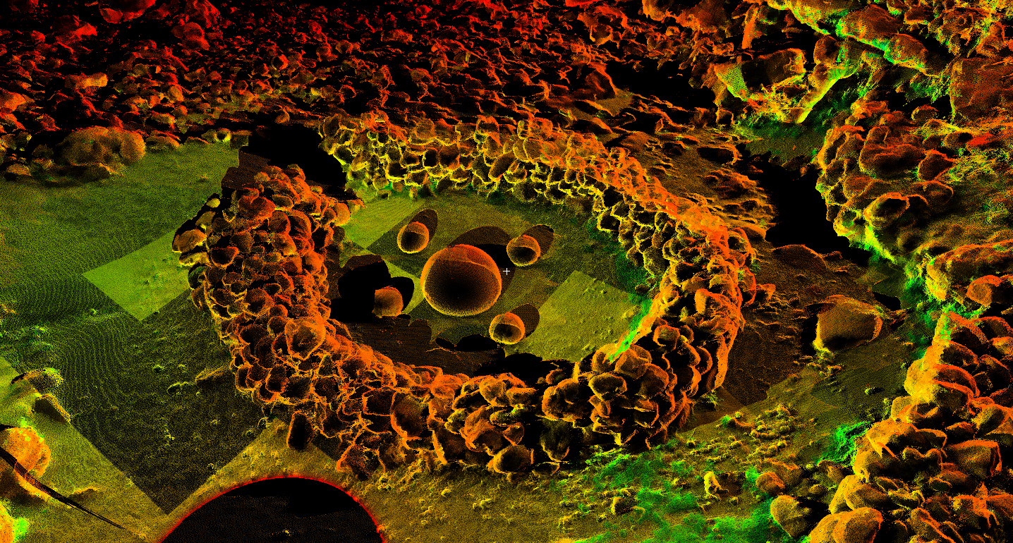 The Rapa Nui term "Te Pito Kura" translates to "Golden Navel", or "Navel of Light", while "Te Pito Te Henua" translates to "Navel of the World"; which is what Rapa Nui is often referred to by its residents, referencing its place in Polynesian mythology. This specific site is the navel of the navel, as it were, located on the island's shore near Anakena, the spot where Rapa Nui's legendary founding figure, Hotu Matura, is said to have landed. Stone barriers surround a worked stone sphere (the "navel" itself) measuring some 75 centimeters in diameter, reputedly brought by Hotu Matura from overseas. Geological sourcing, however, indicates the sphere is actually of local origin. The Ahu next to Te Pito Kura also has the largest moai (Paro, standing 9.8 meters tall at 82 tons, with an 11.5 ton pukao) known to have been ever erected on an ahu; toppled sometime after 1838, it was one of the last (if not the last) standing moai on the island until modern times.